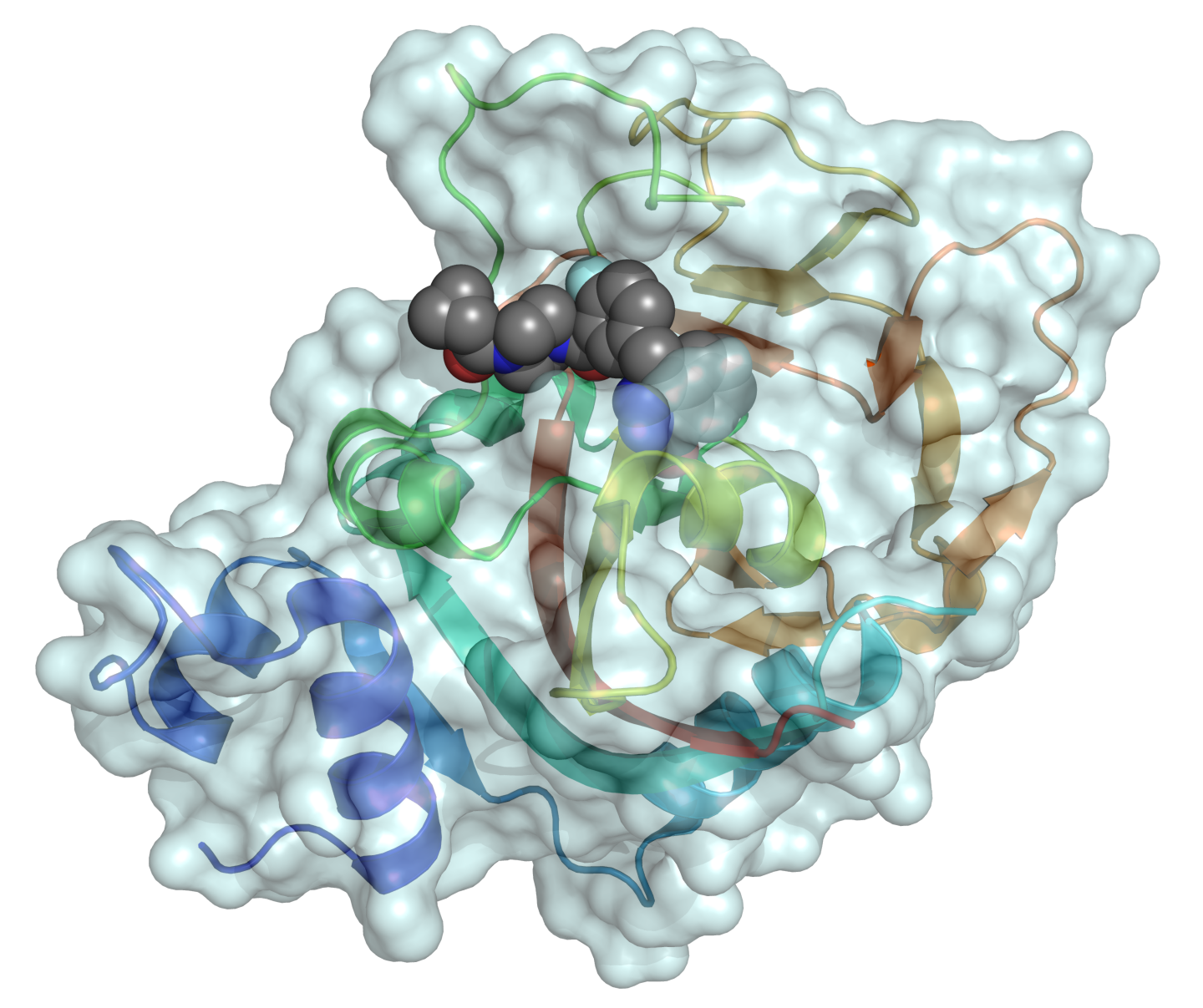 Mixed surface–ribbon representation of the catalytic domain of human poly (ADP-ribose) polymerase 1 (PARP1) binding the small-molecule inhibitor olaparib (shown as a space-filling model). Representation-independent color control was used to color the surface and ribbon diagrams differentially in the interest of clarity. This structure was created with PyMOL.